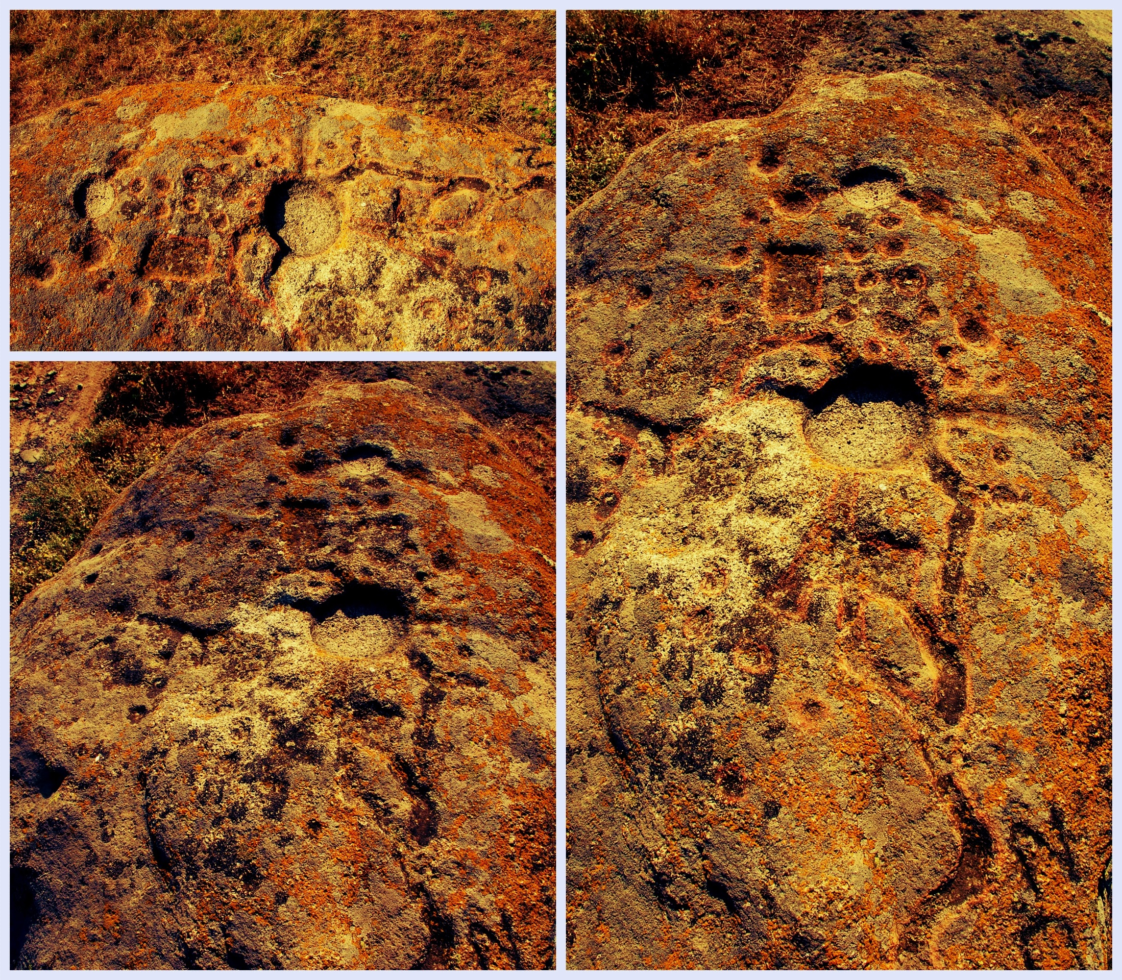 Kalinkin kamuk - Kvachkata Hlyabovo BG